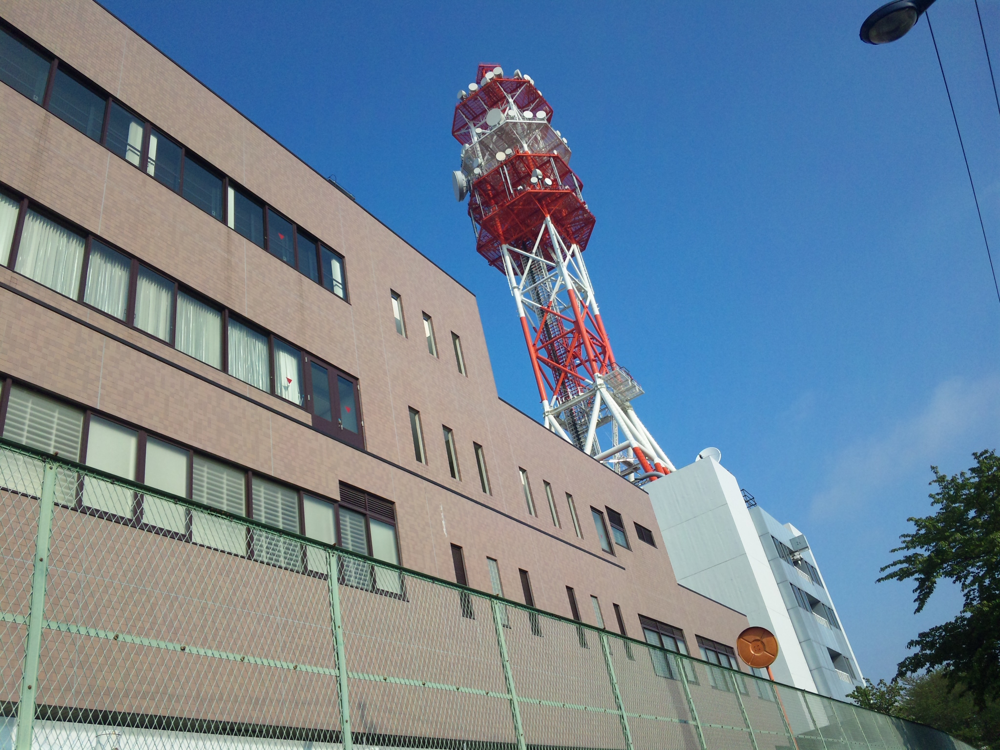 NTT EAST Kita Buildhing